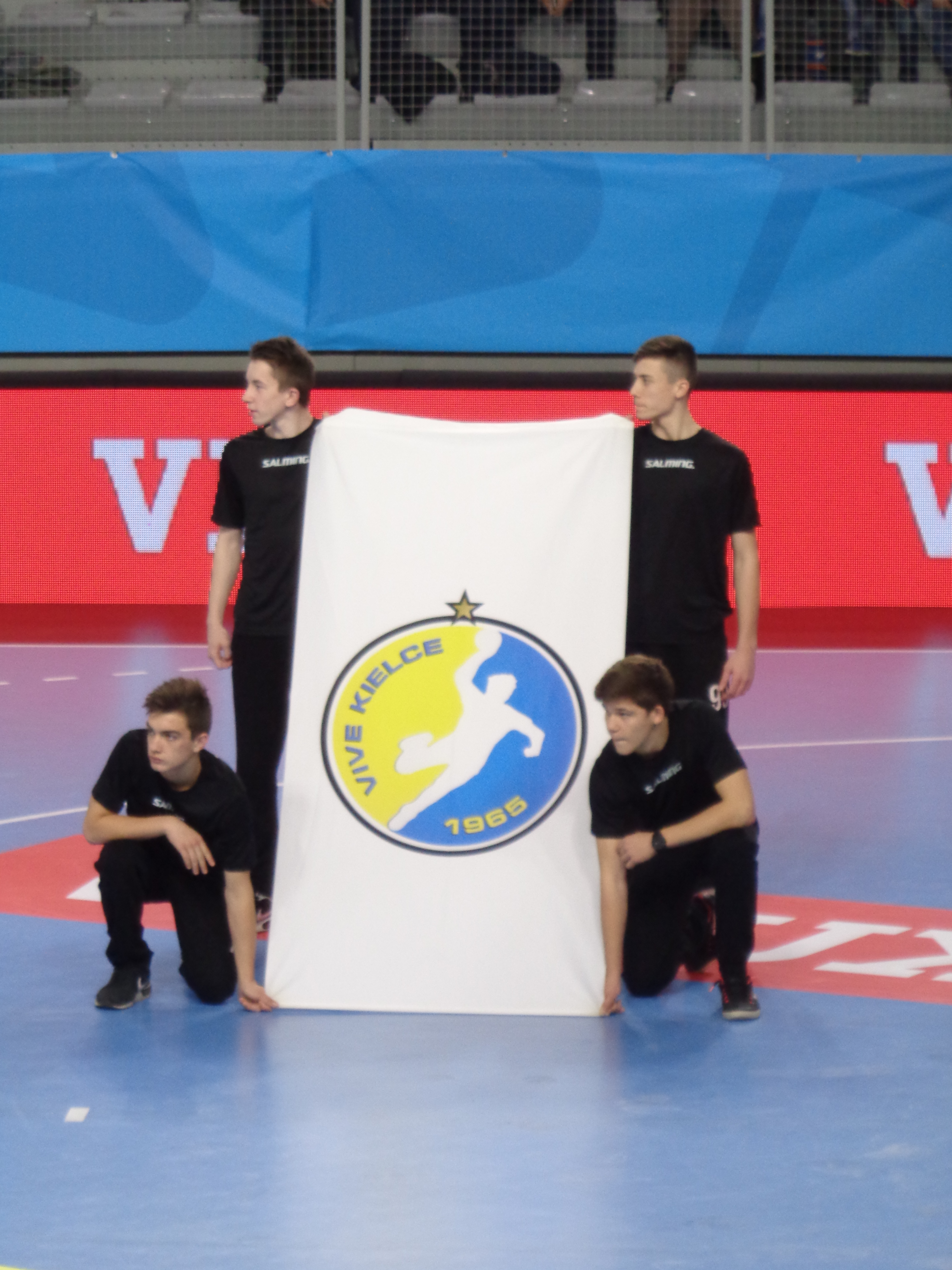 Vive Tauron Kielce handball team flag, Poland (2016.)